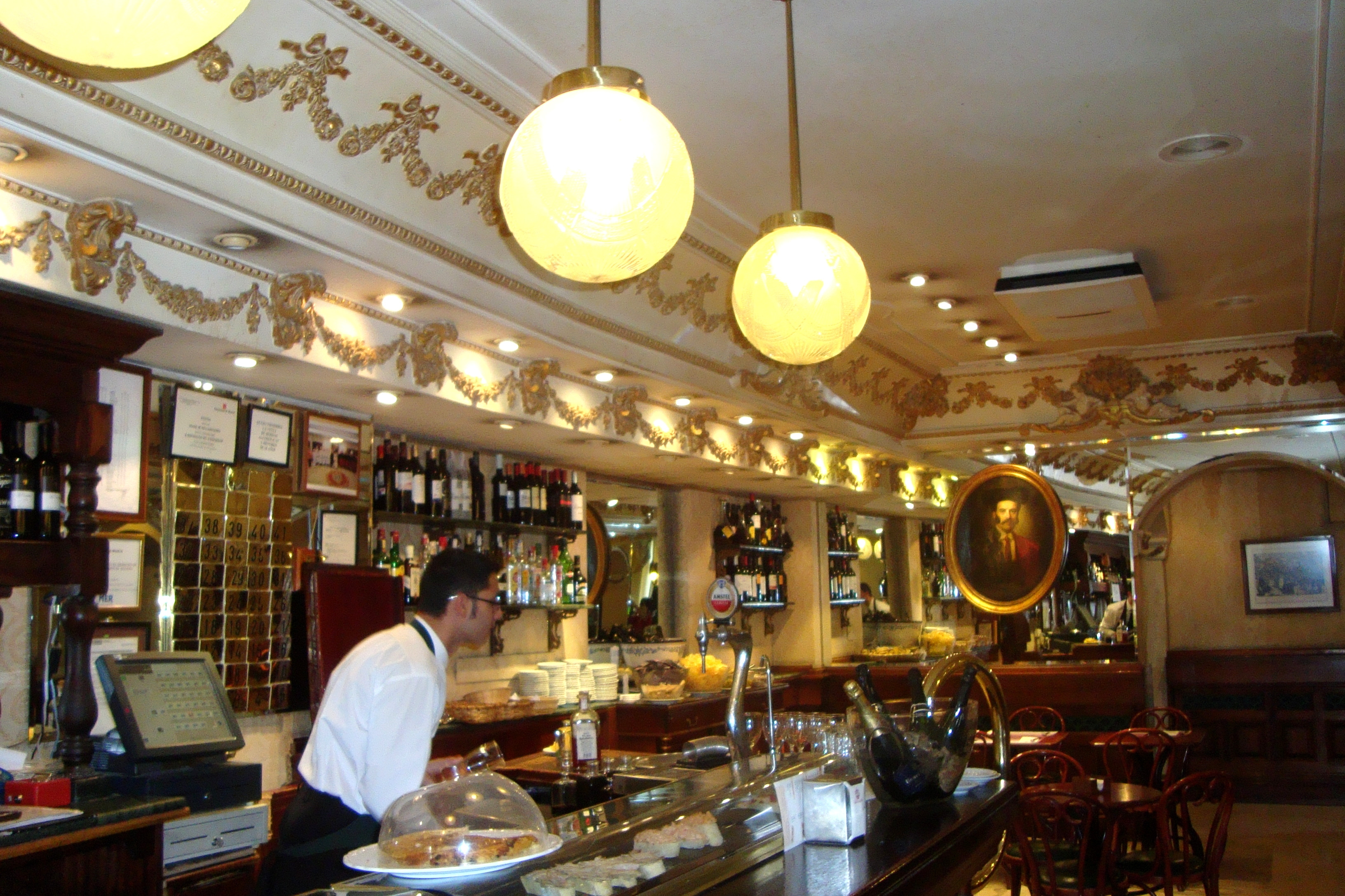 Café de oriente, Madrid, Interior